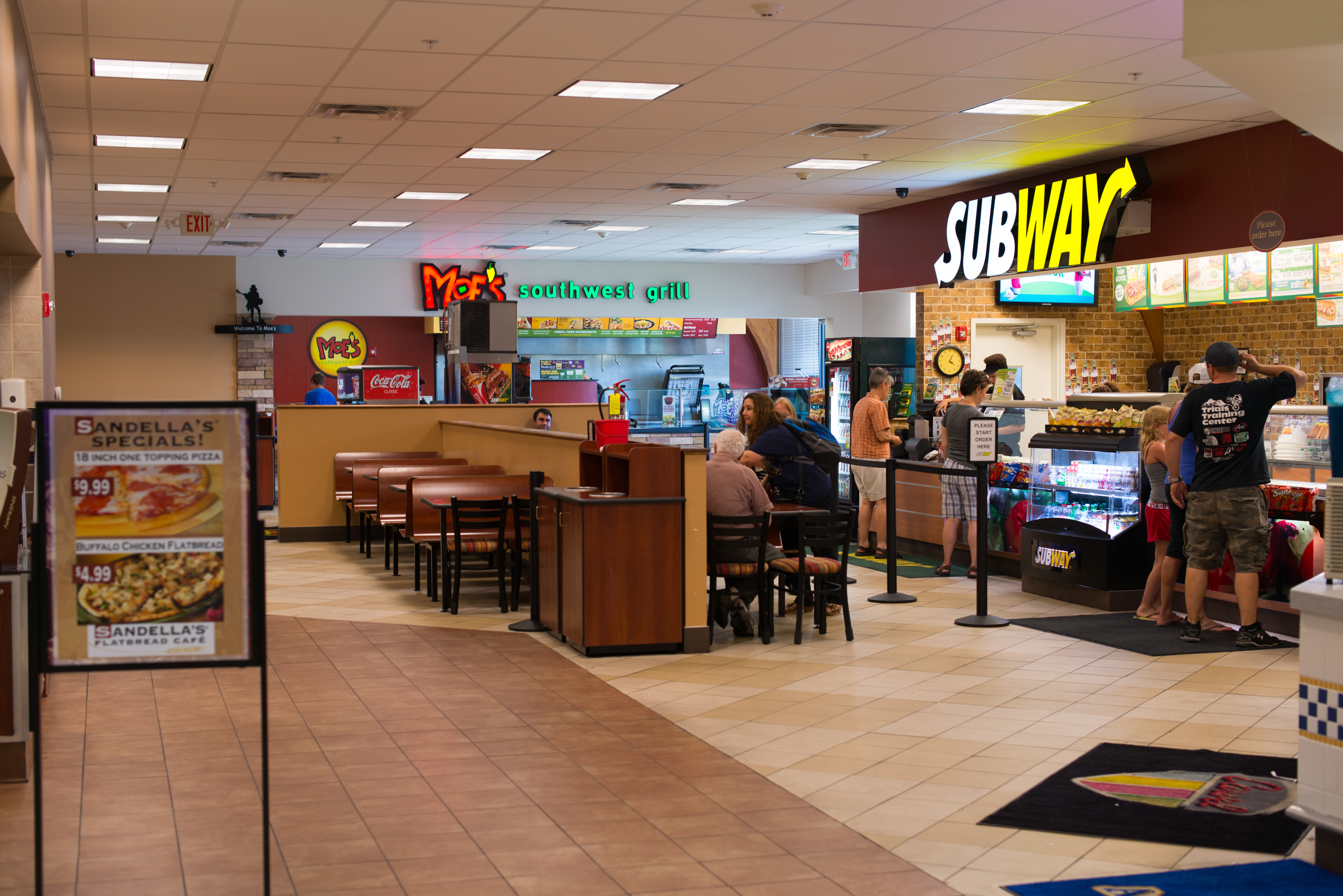 This location of the Angola Travel Plaza used to be a Denny's, in 2013 it was a Moe's Southwest Grill and Subway restaurant.